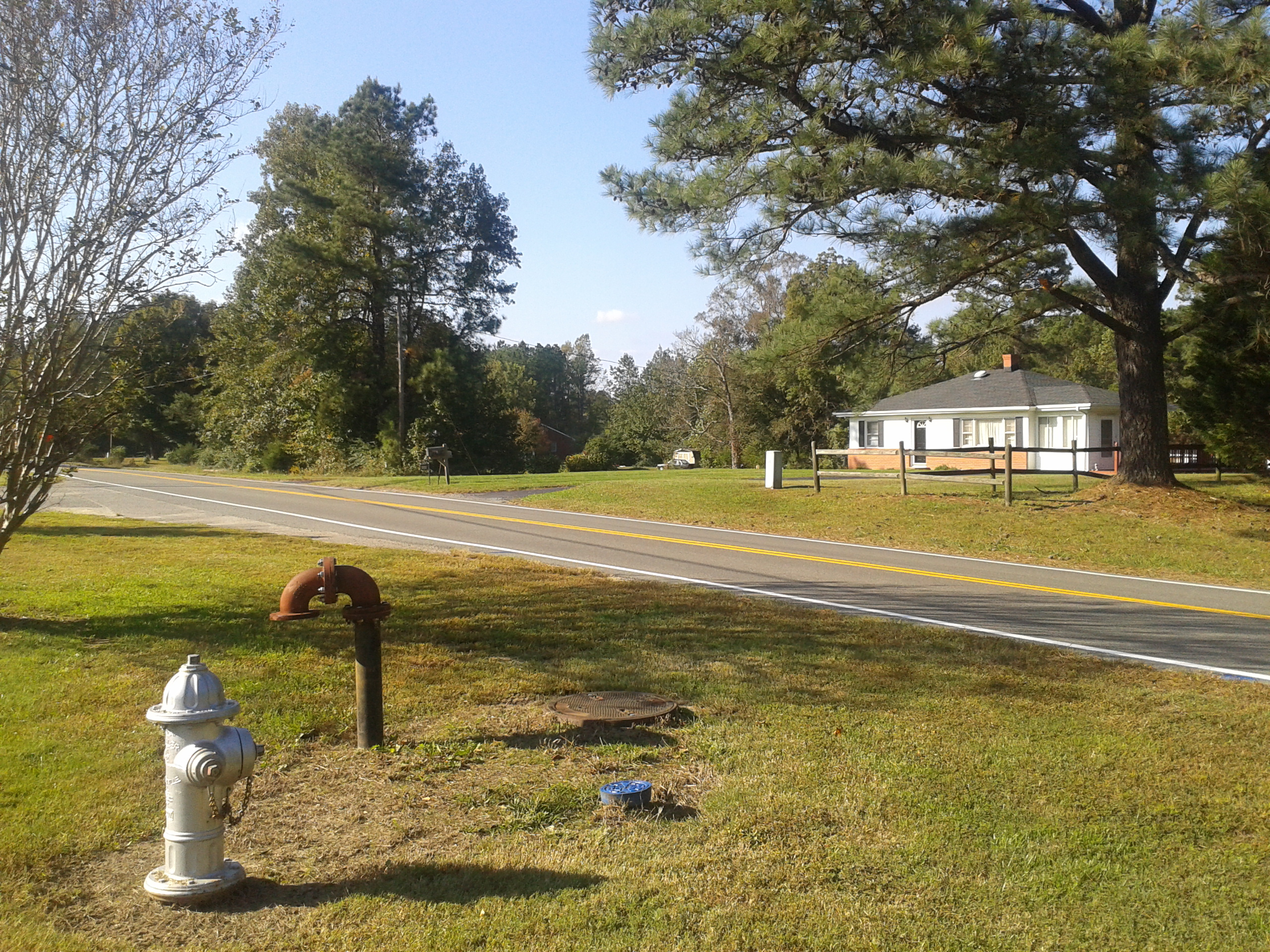 Taken by me in October, 2016